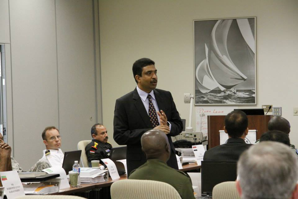 Lt. Col. Modestus Fernando conducting training on aspects of IHL and HR in counter-terrorism operations